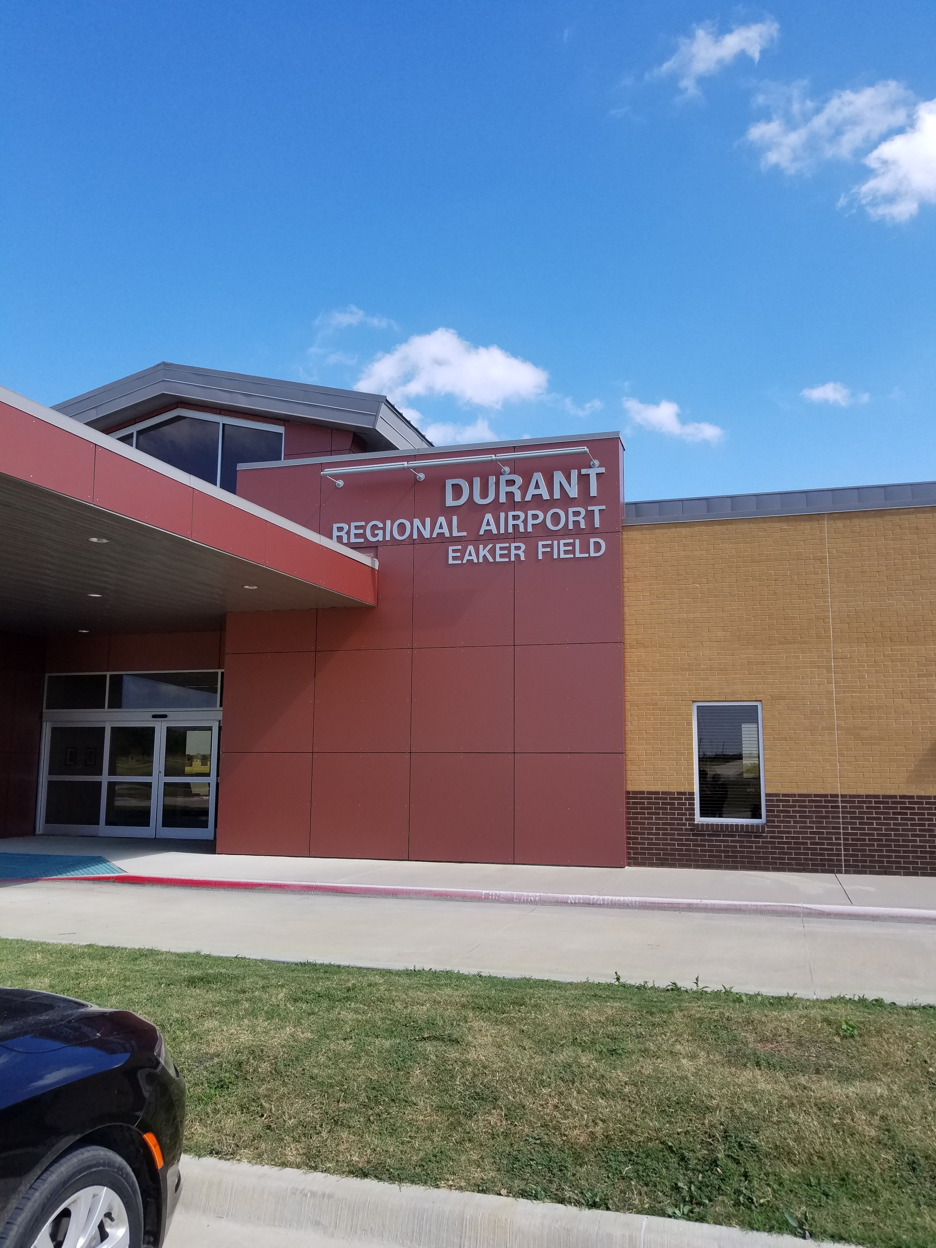 The Eaker Field Aiport Terminal Building in Durant, Oklahoma.